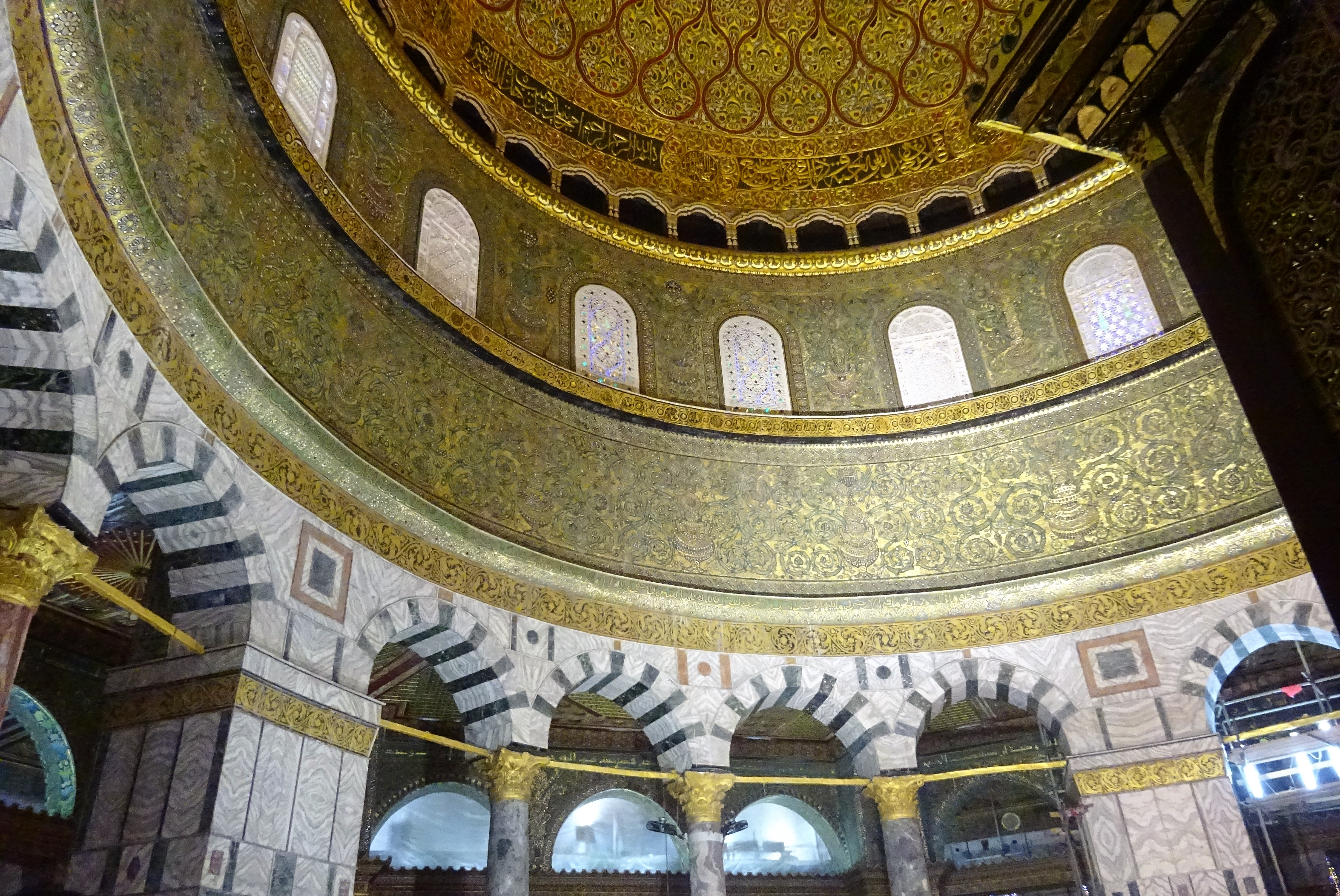 Dome of the Rock inside viewing upwards, January 2018